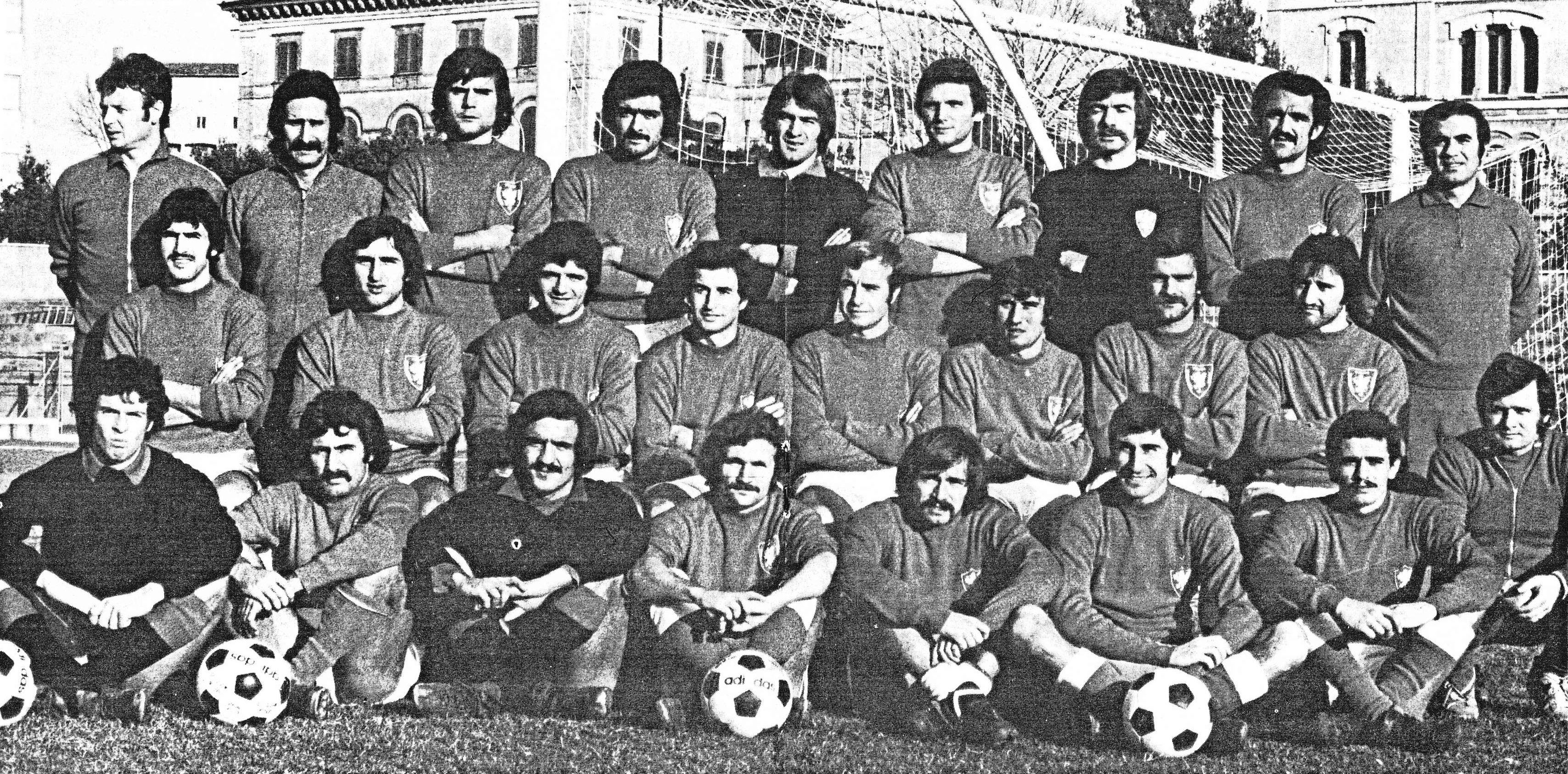 The first-team squad of A.C. Perugia in the 1974–75 season, posing inside the Santa Giuliana Stadium in Perugia (Italy).